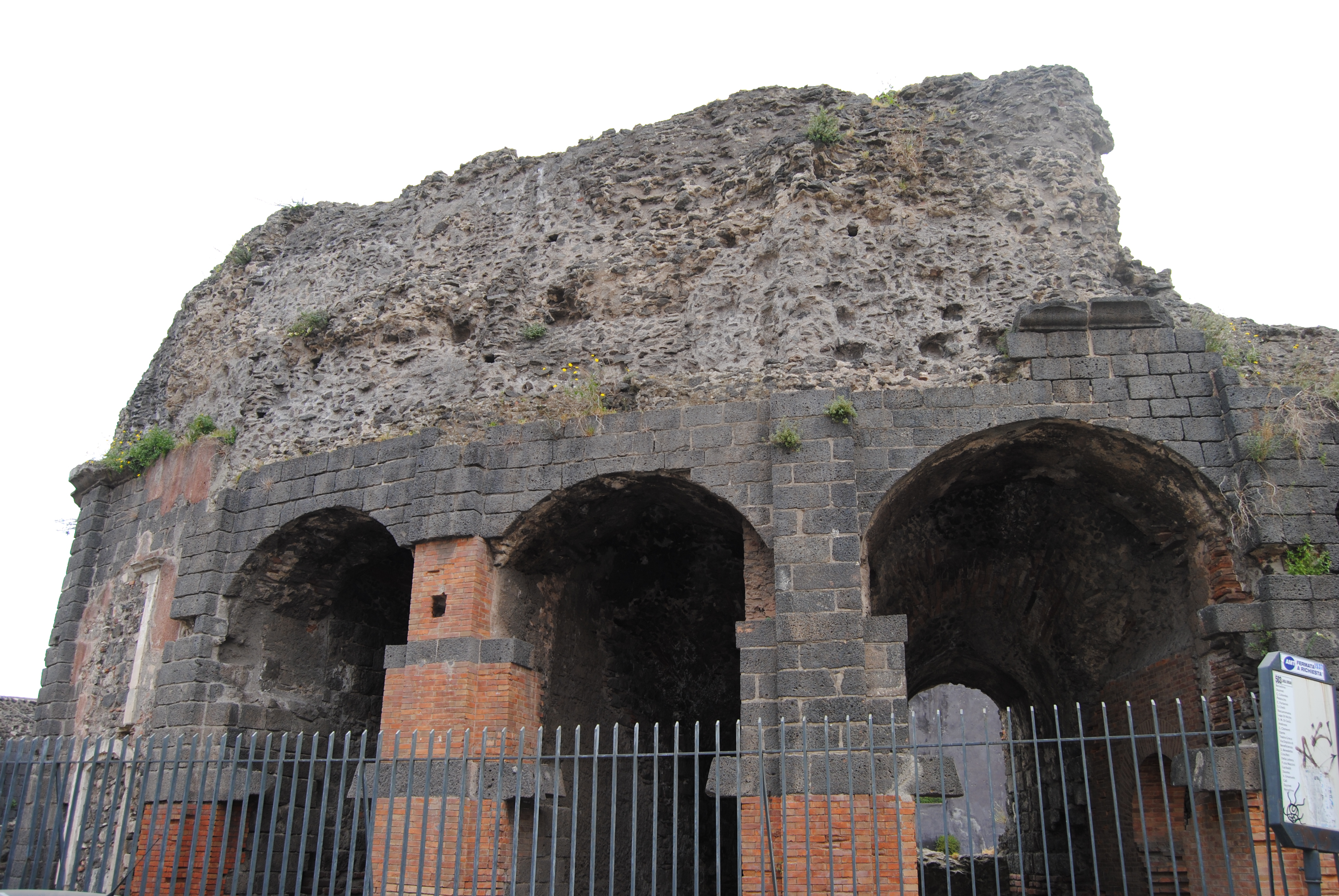 Odeum Catania